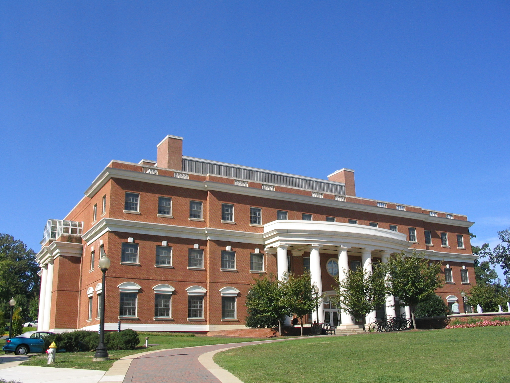 Simpson Science Center, the University of Mary Washington, Fredericksburg, Virginia.